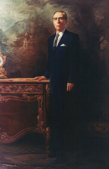 President Gustavo Diaz Ordaz (1911-1979)